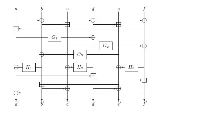 F-function of the Dragon Cipher